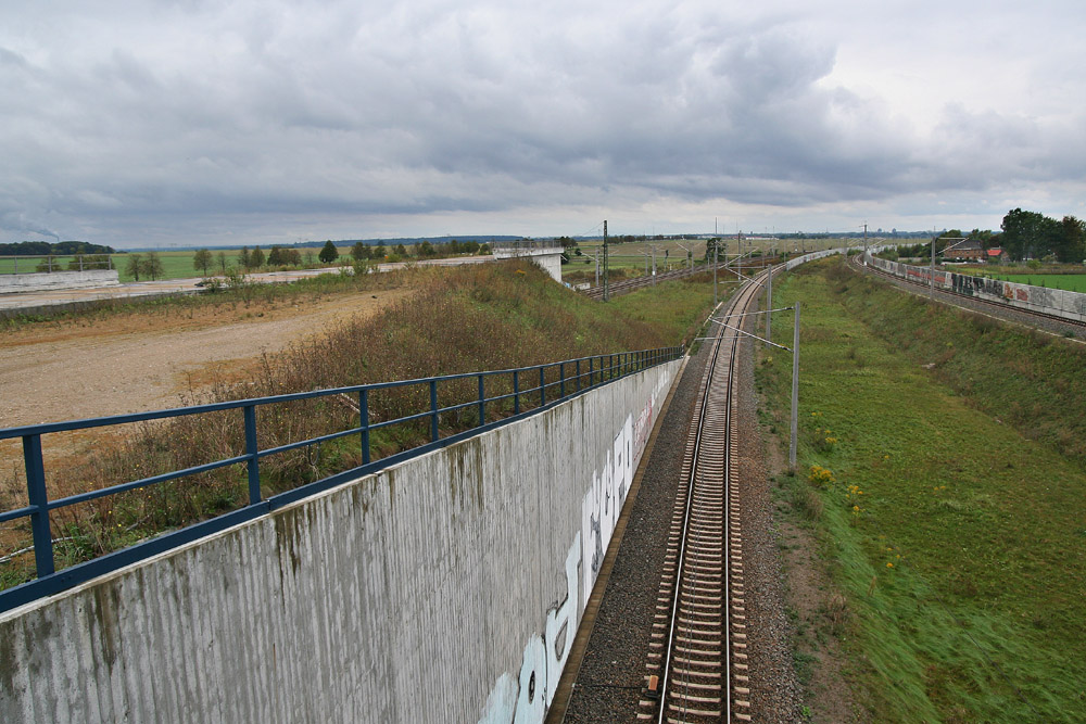 A view from the Gröbers crossing.